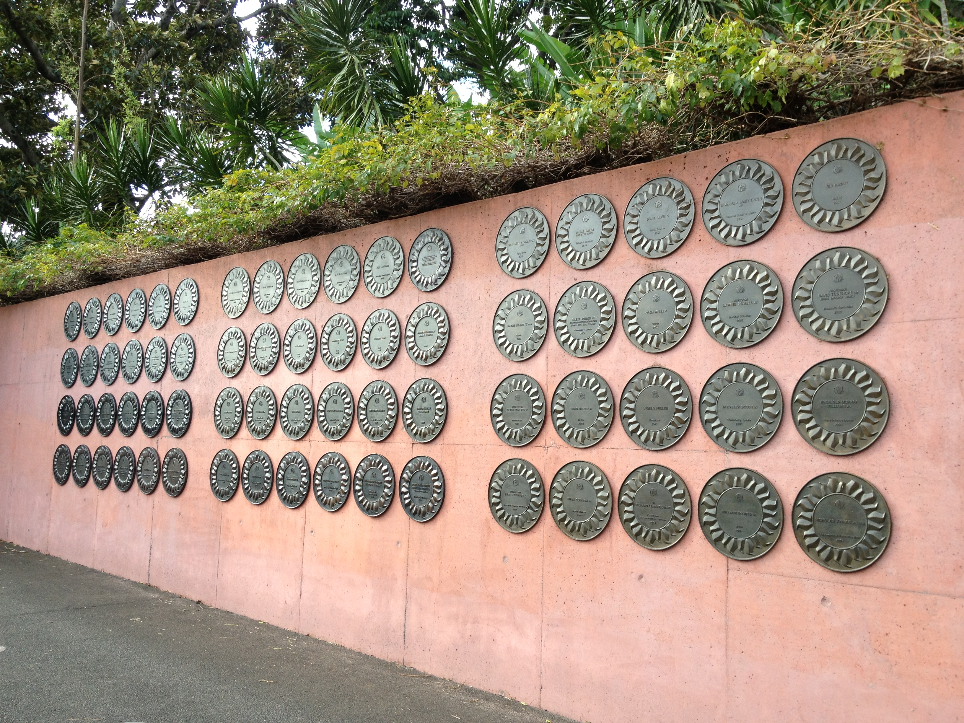 Qld Greats, Awards Wall at Roma Street Parkland, May 2013